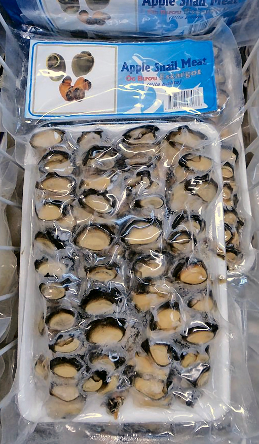 Apple snail meat.